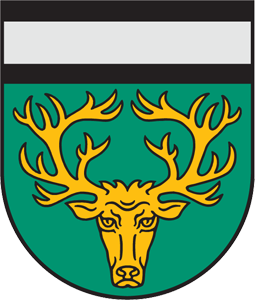 Coat of arms of the city of Aknīste, Latvia